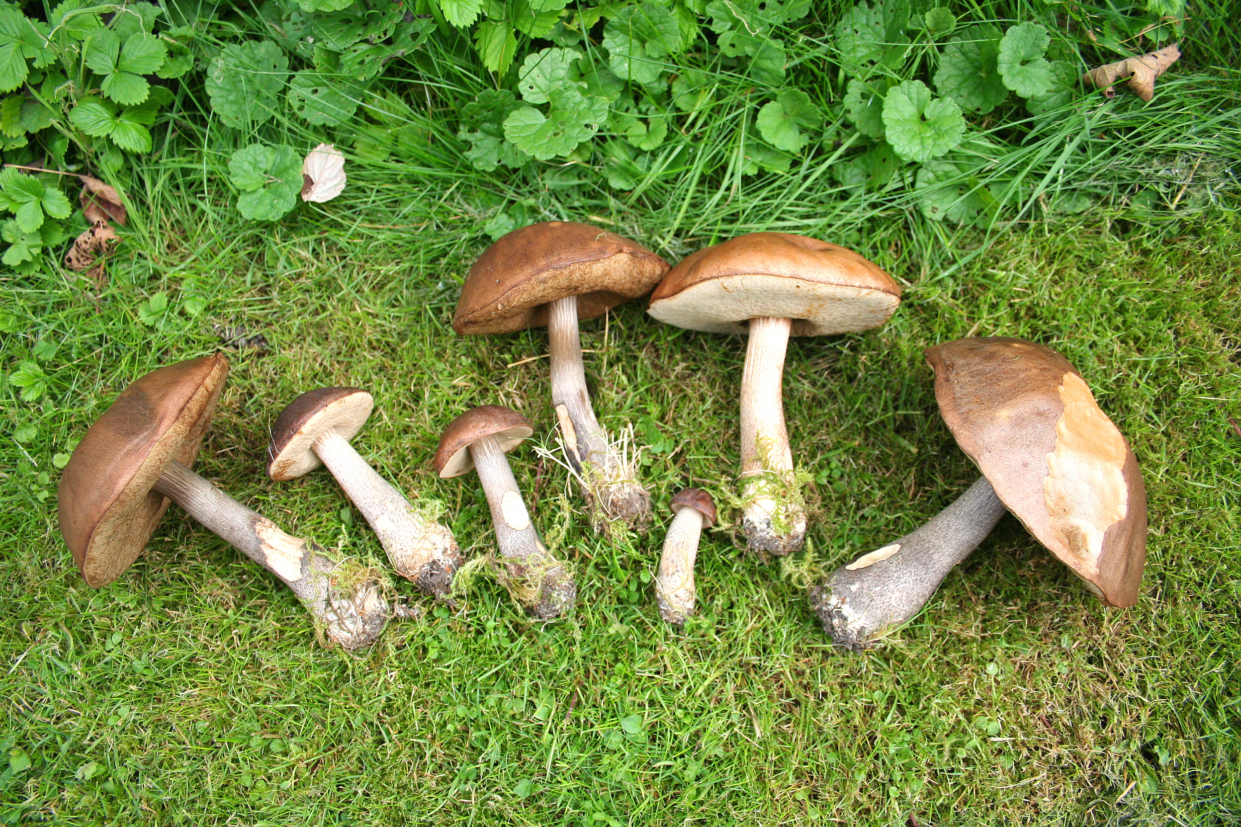 Birch bolete, Mons, Belgium